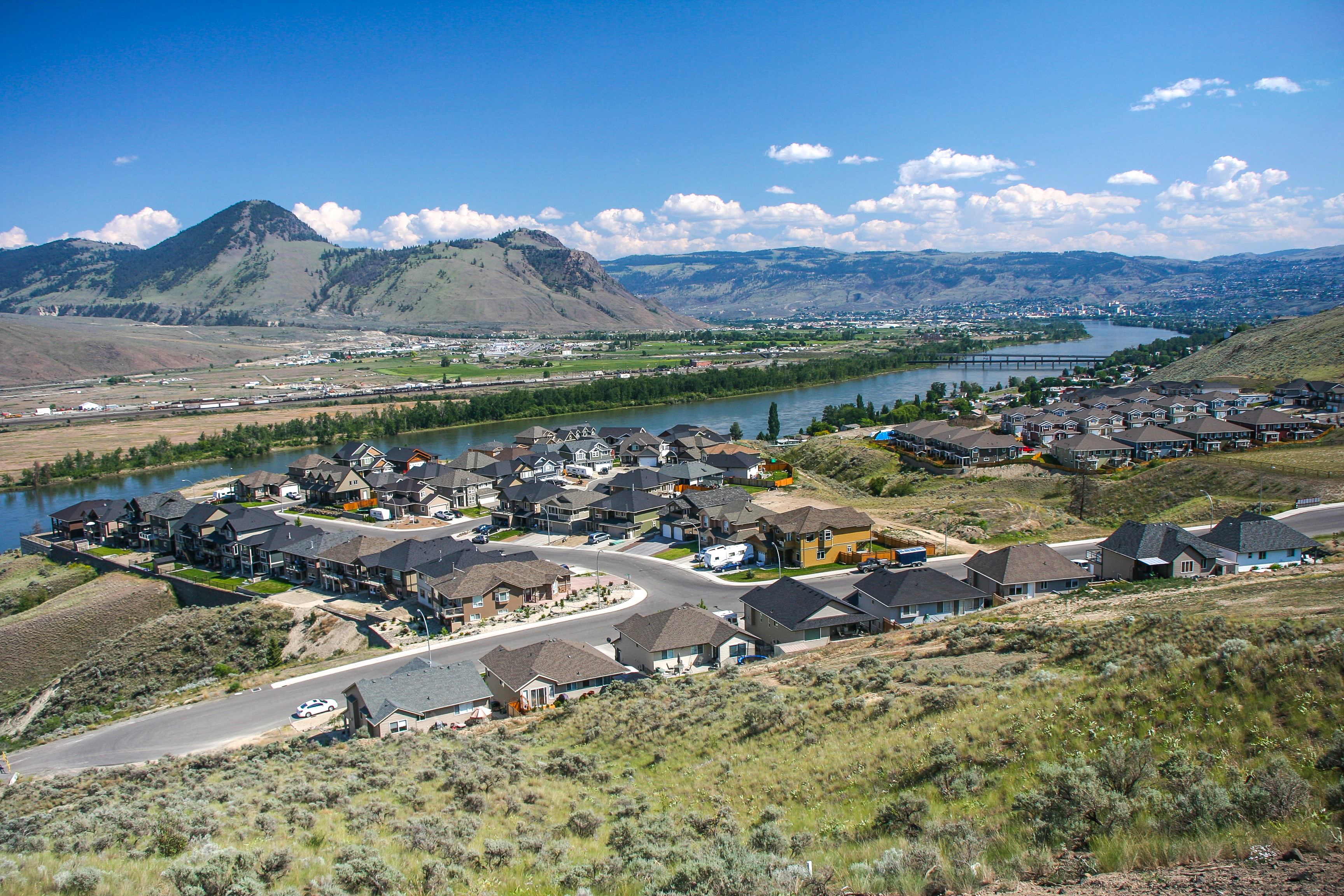 Kamloops, and Mts. Peter & Paul